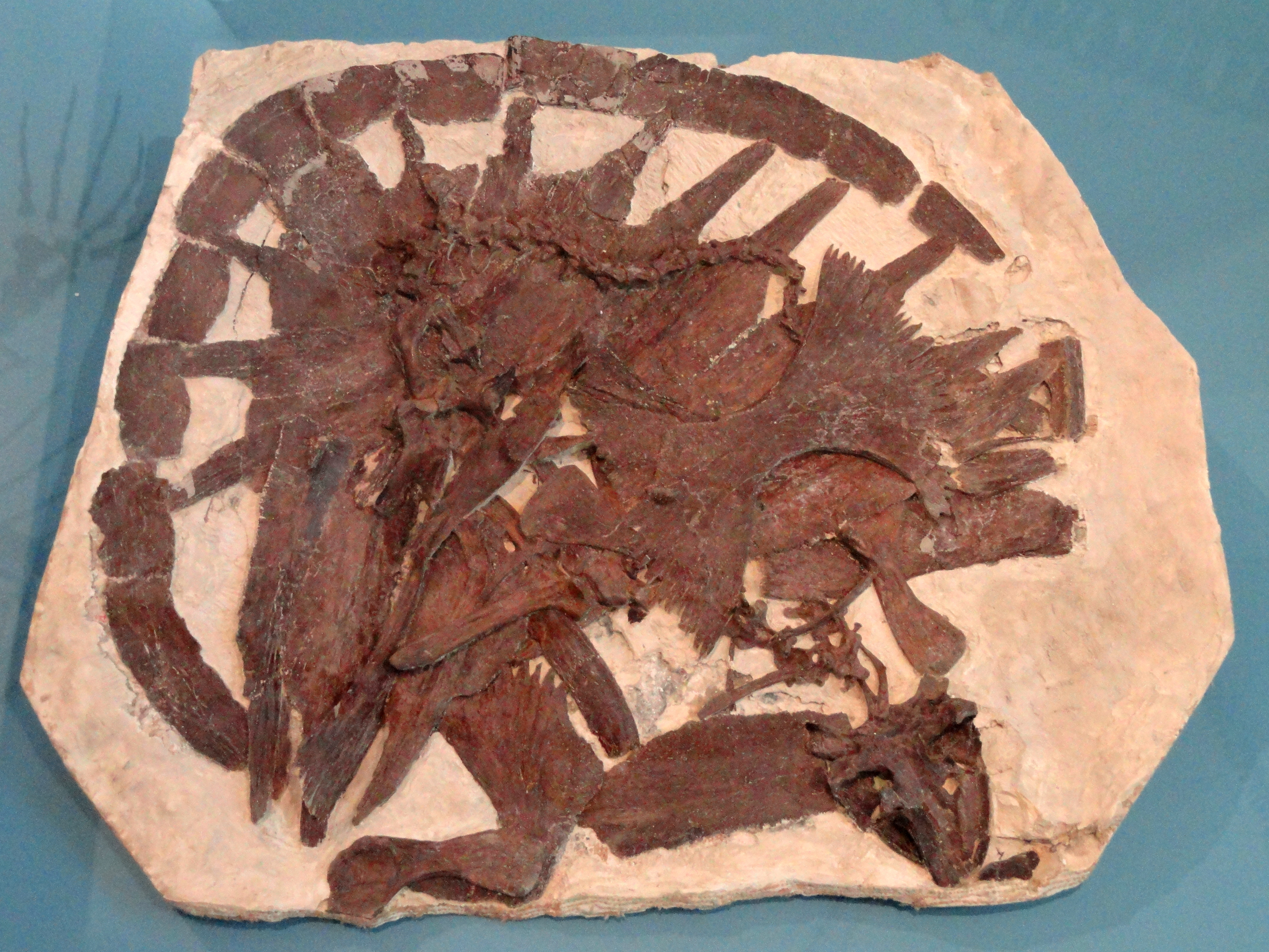 Exhibit in the Royal Ontario Museum, Toronto, Ontario, Canada. This exhibit is old enough so that it is in the public domain, and photography was permitted in the museum. I took this photograph and release it into the public domain.